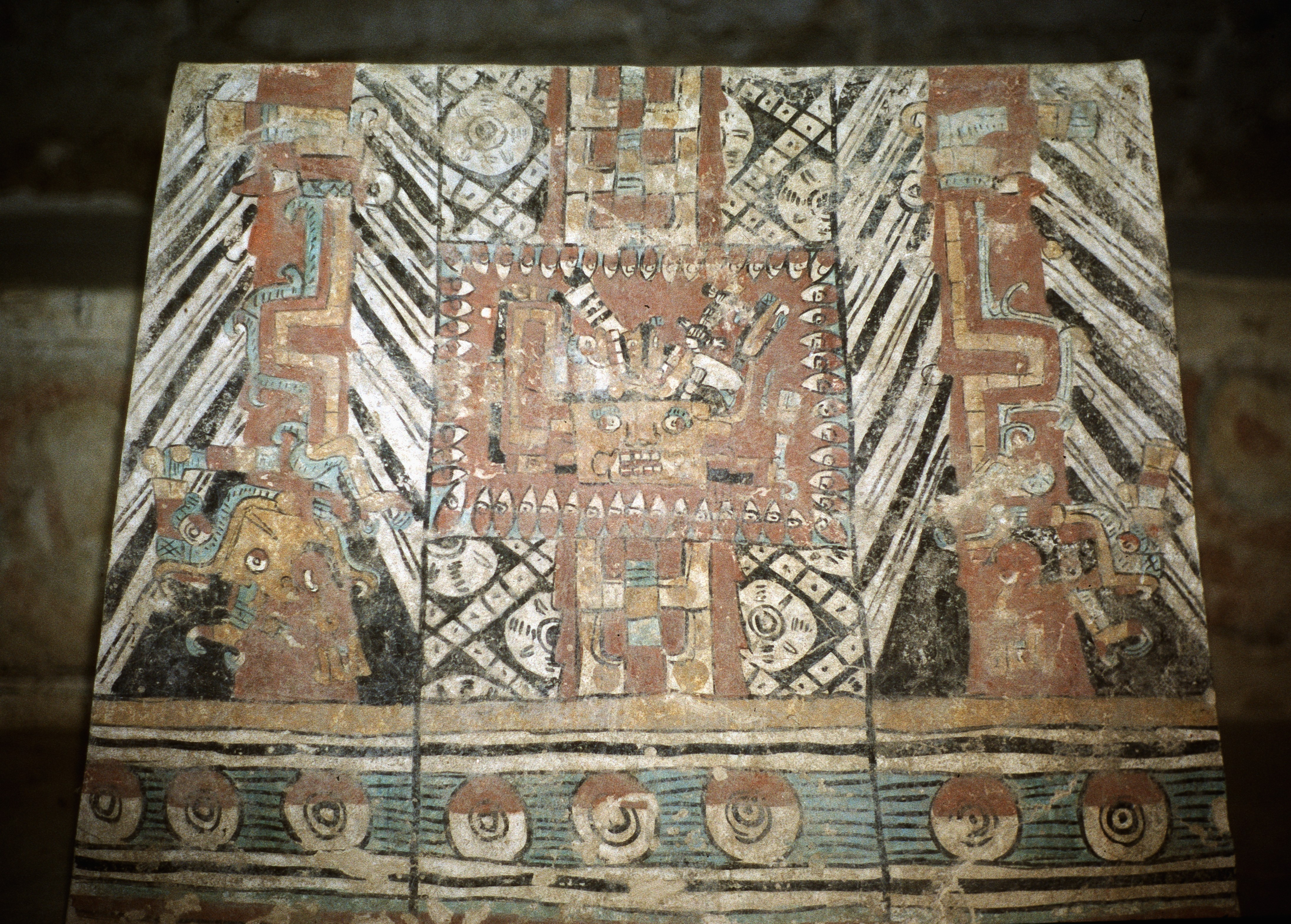 Ocotelulco, Tlaxcala, Mexico: painted altar stone